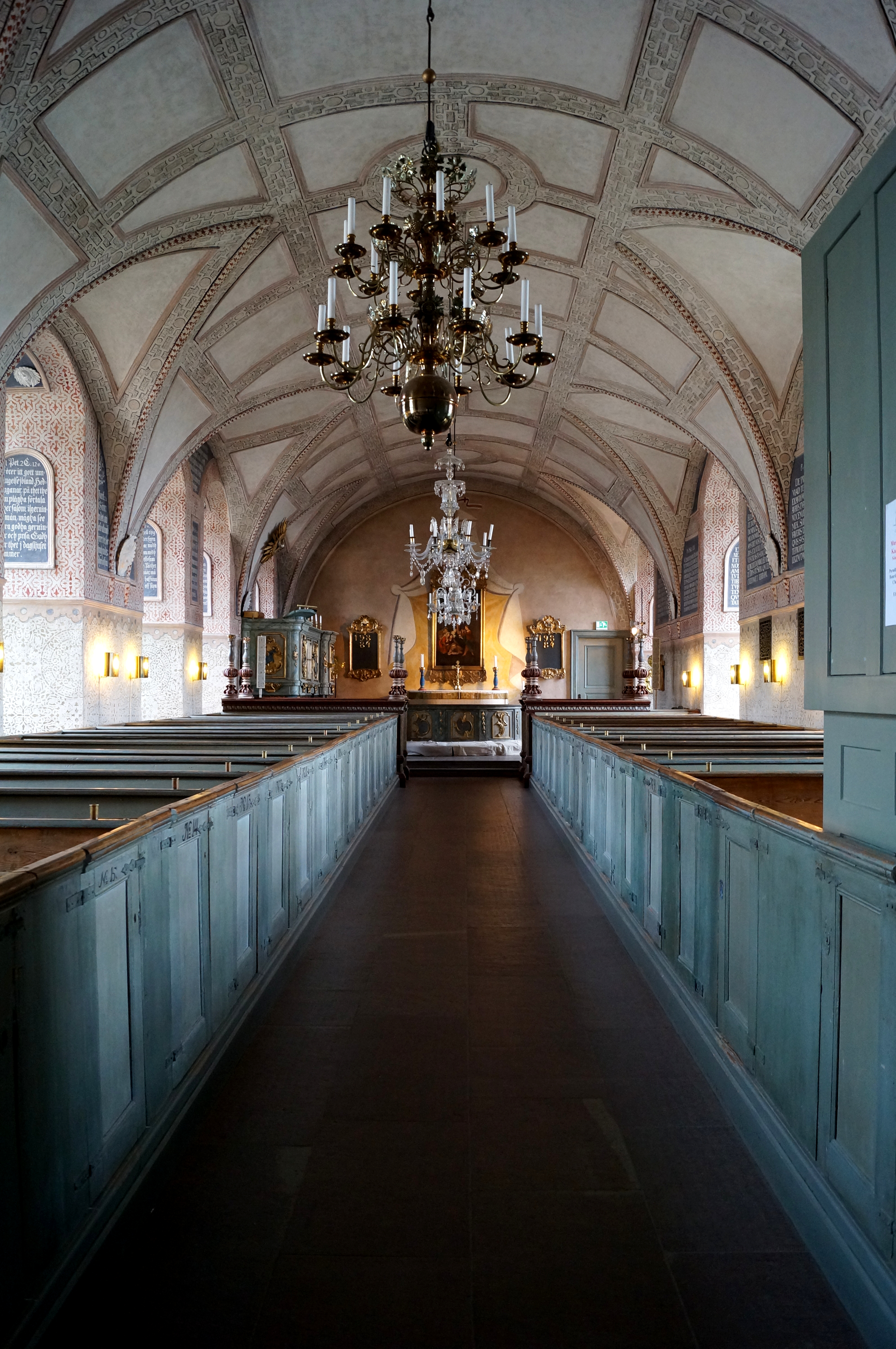 The church in Kalmar castle.